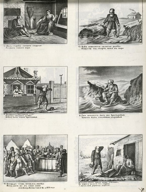 Tale of the fishermen and the fish.